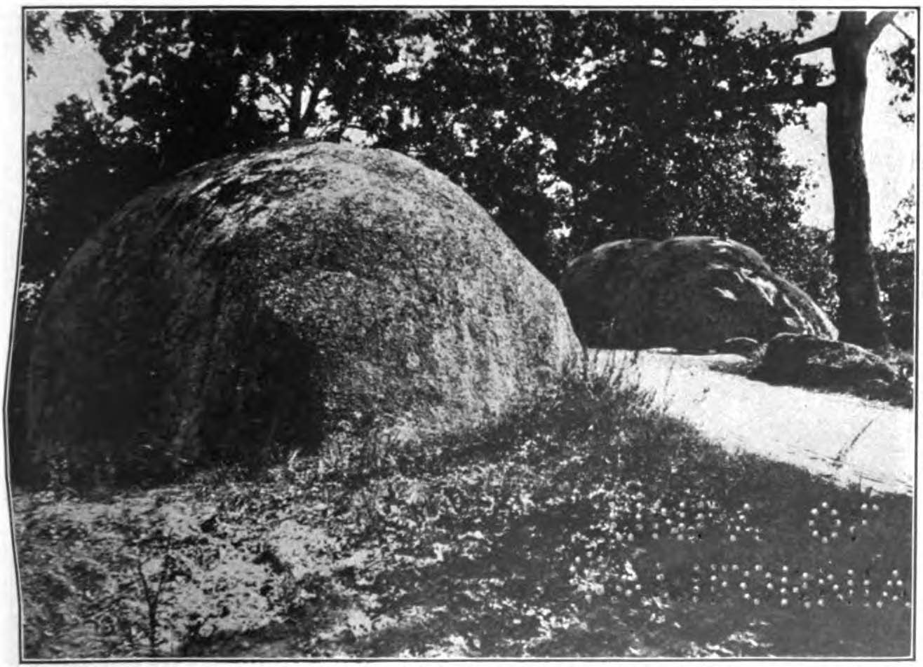 Original caption: Bowlder Outcrop of Syenite, southwest of Concord, Cabarrus County, NC.